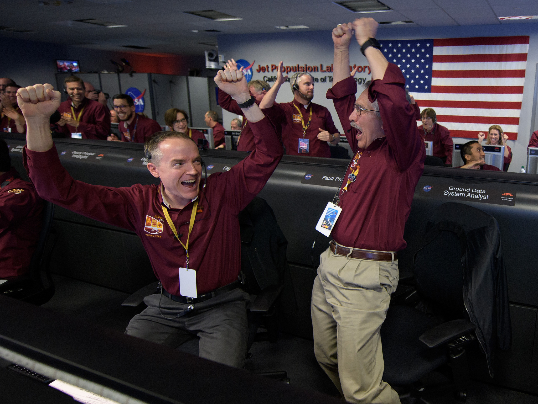 NASA - The InSight Lander Lands On The Planet Mars - November 26, 2018 Mars InSight team members Kris Bruvold, left, and Sandy Krasner react after receiving confirmation that the Mars InSight lander successfully touched down on the surface of Mars, Monday, Nov. 26, 2018 inside the Mission Support Area at NASA's Jet Propulsion Laboratory in Pasadena, California.